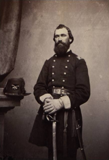 Colonel Jacob C. Higgins in cavalry attire.